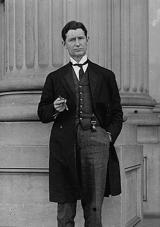 Edwin Y. Webb Bain News Service,, publisher. Edwin Webb [no date recorded on caption card] 1 negative : glass ; 5 x 7 in. or smaller. Notes: Title from unverified data provided by the Bain News Service on the negatives or caption cards. Forms part of: George Grantham Bain Collection (Library of Congress). Format: Glass negatives. Repository: Library of Congress, Prints and Photographs Division, Washington, D.C. 20540 USA, General information about the Bain Collection is available at Persistent URL: Call Number: LC-B2- 2683-14